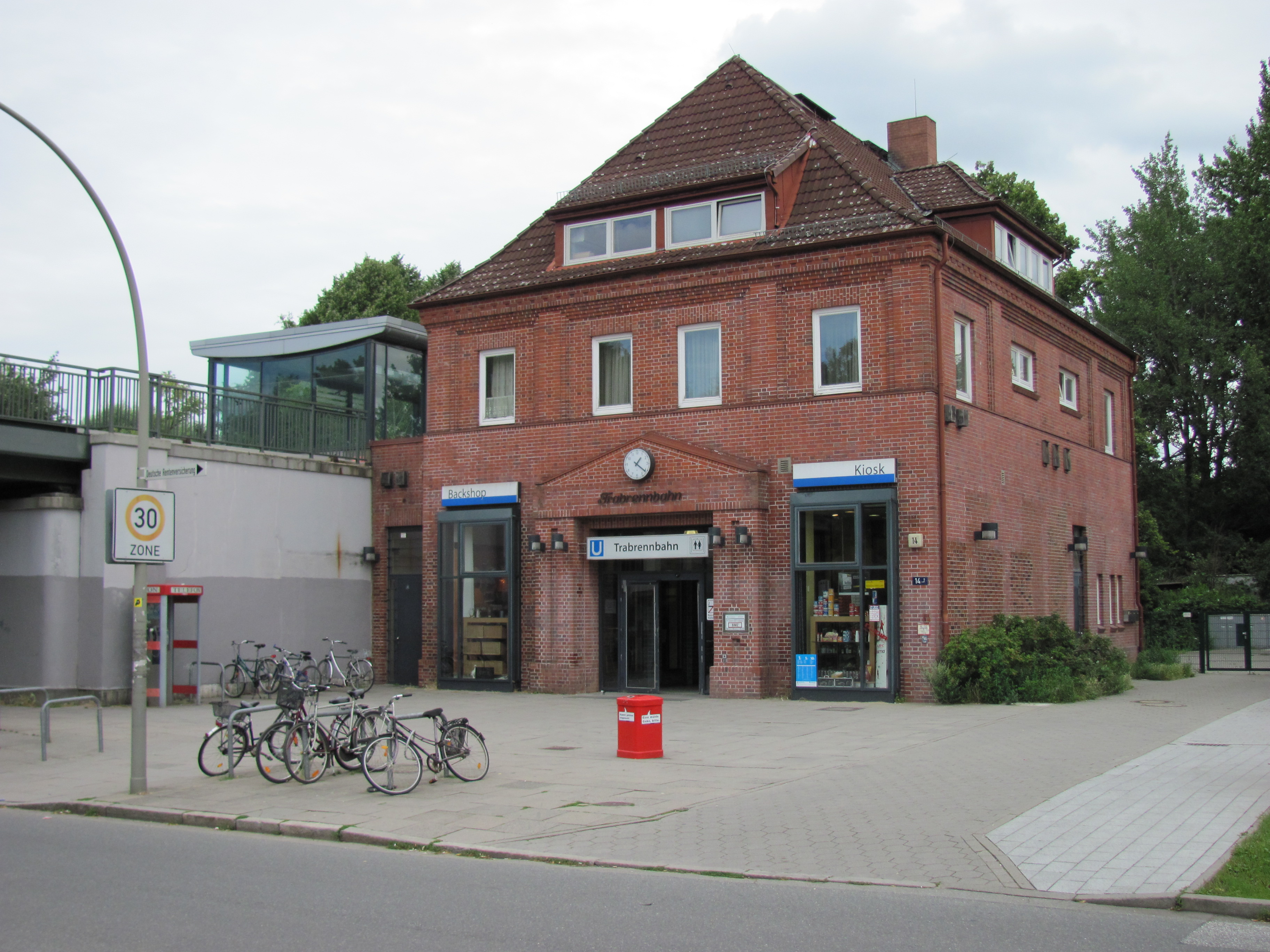 U-Bahn station Trabrennbahn in Hamburg, Germany